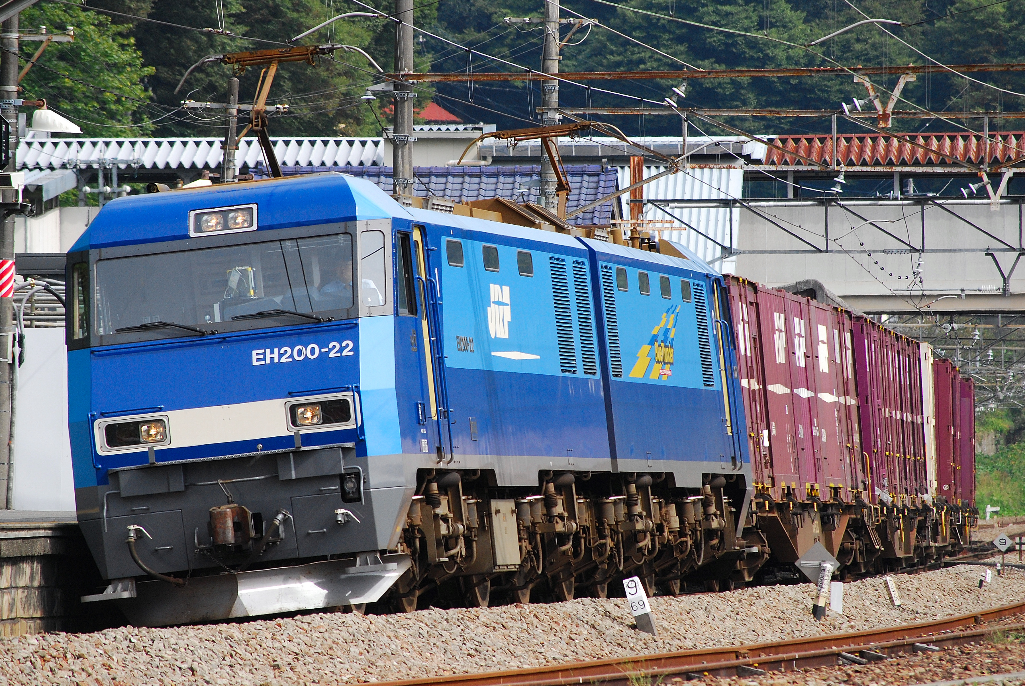 JR Freight EH200-22 hauling a container train on the Chuo Line in Japan